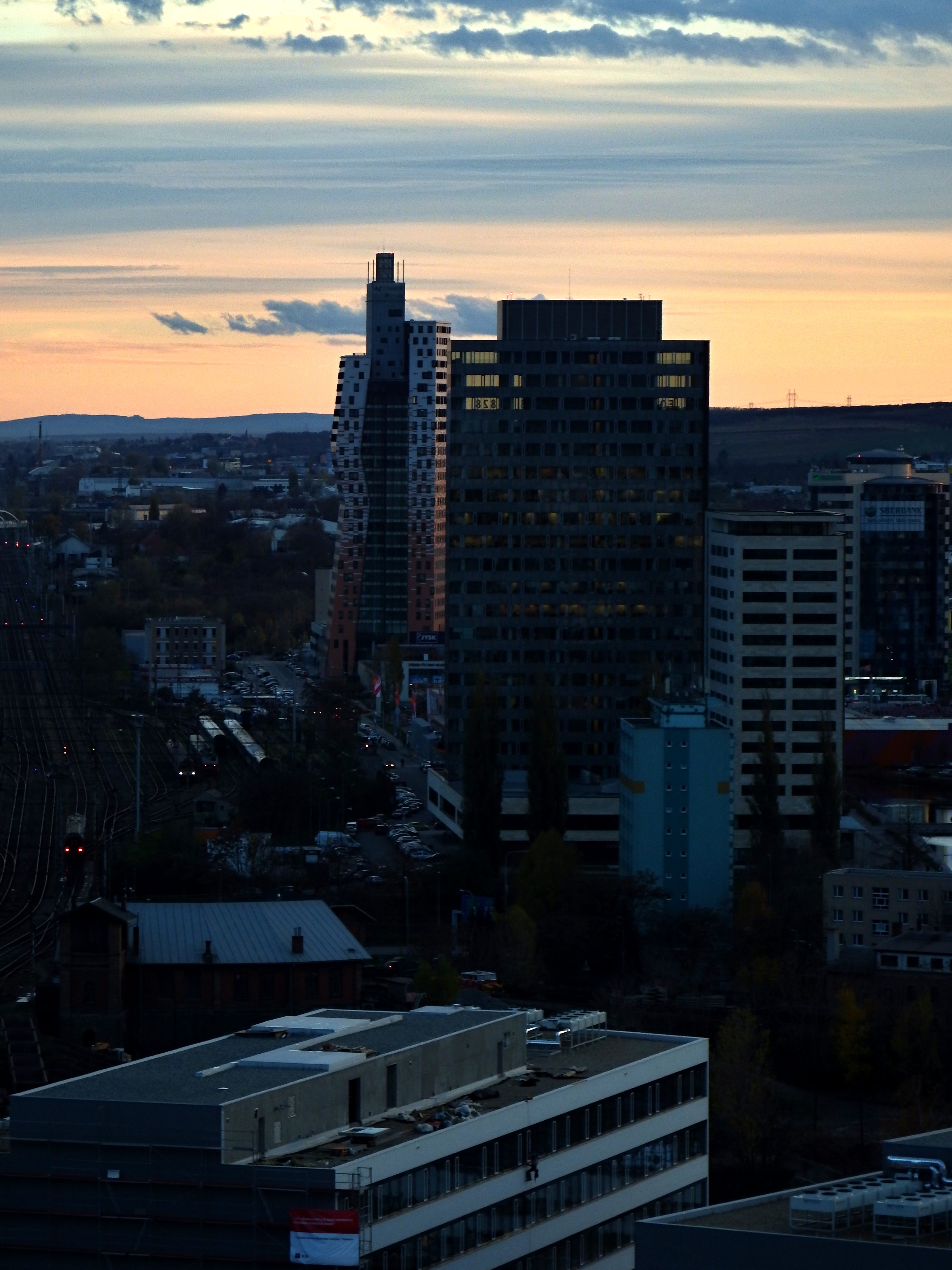 First true Skyscraper in Brno. 111 meters high.